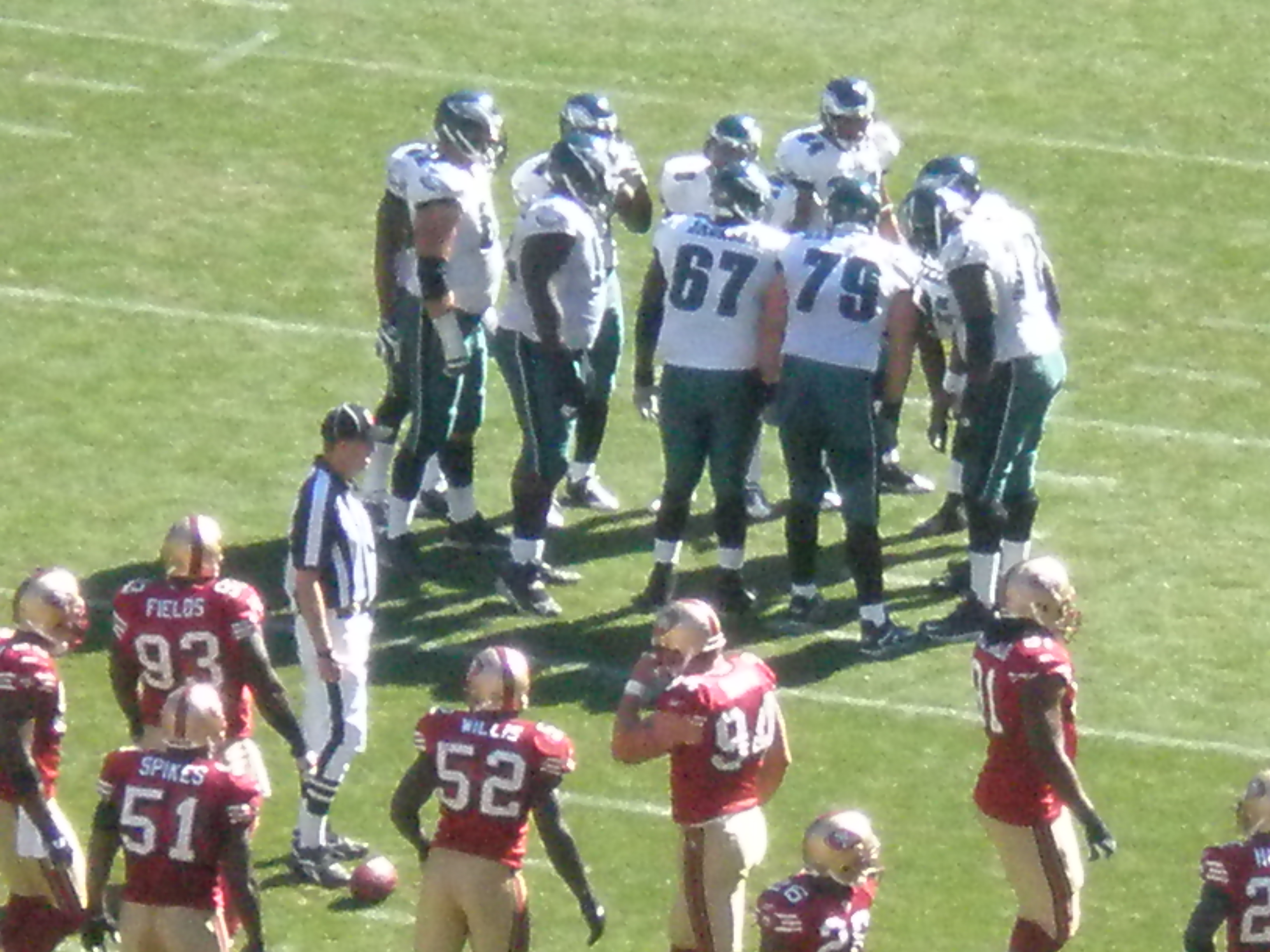 The Philadelphia Eagles in a huddle during a regular season game against the San Francisco 49ers. The Eagles won 40-26.